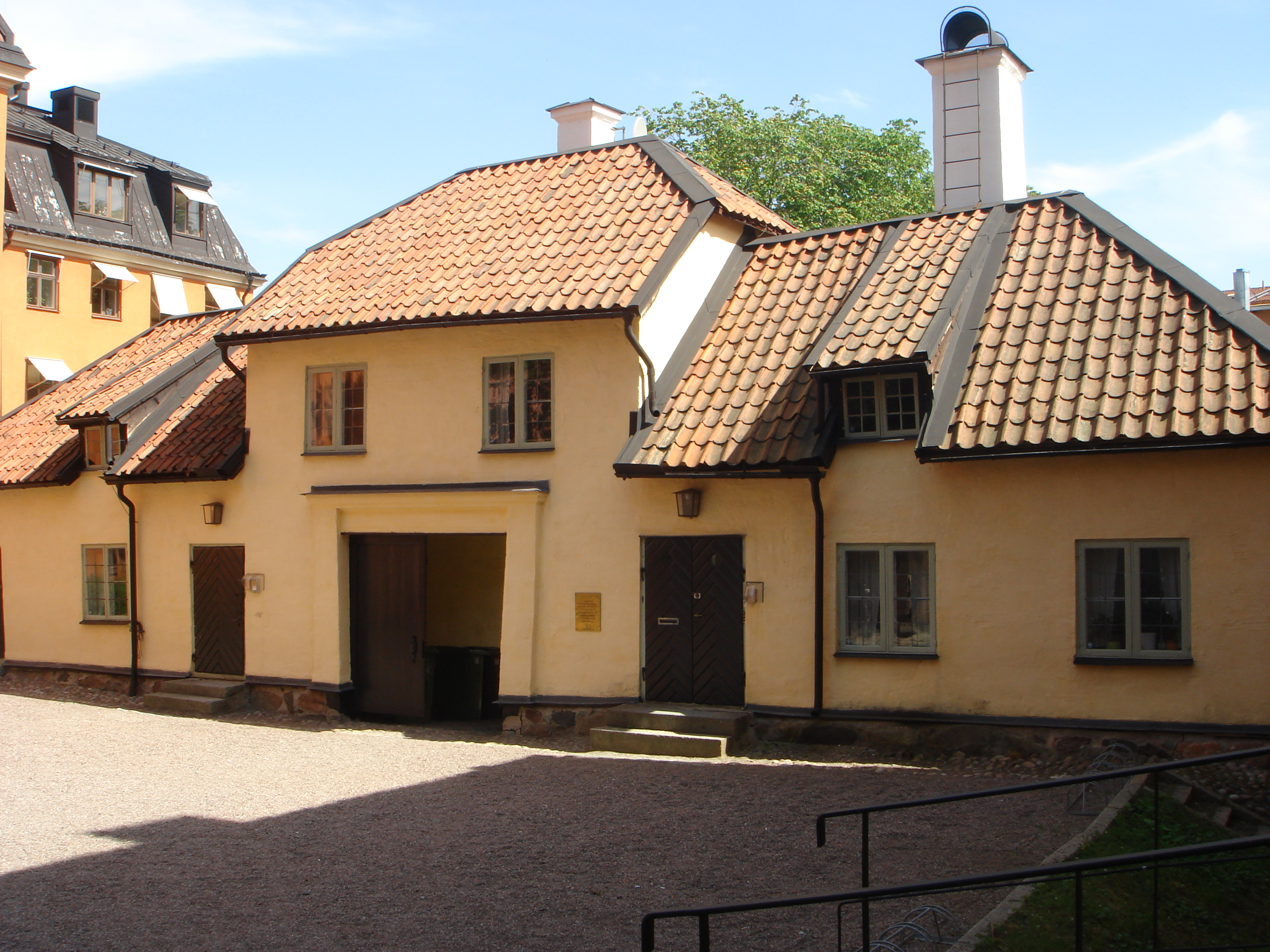 Atterbomska huset near Skytteanum in Uppsala.